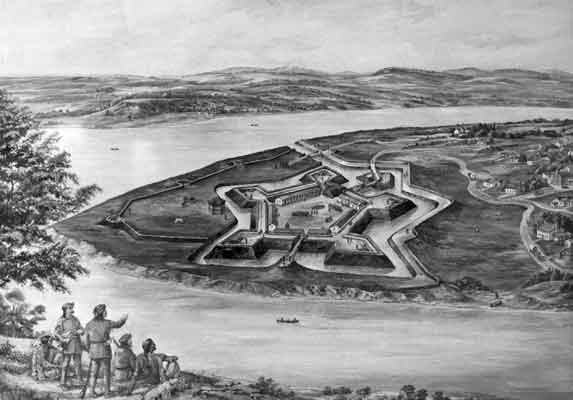 An artist's rendition of Fort Pitt, now Pittsburgh, PA, as it appeared around 1776.